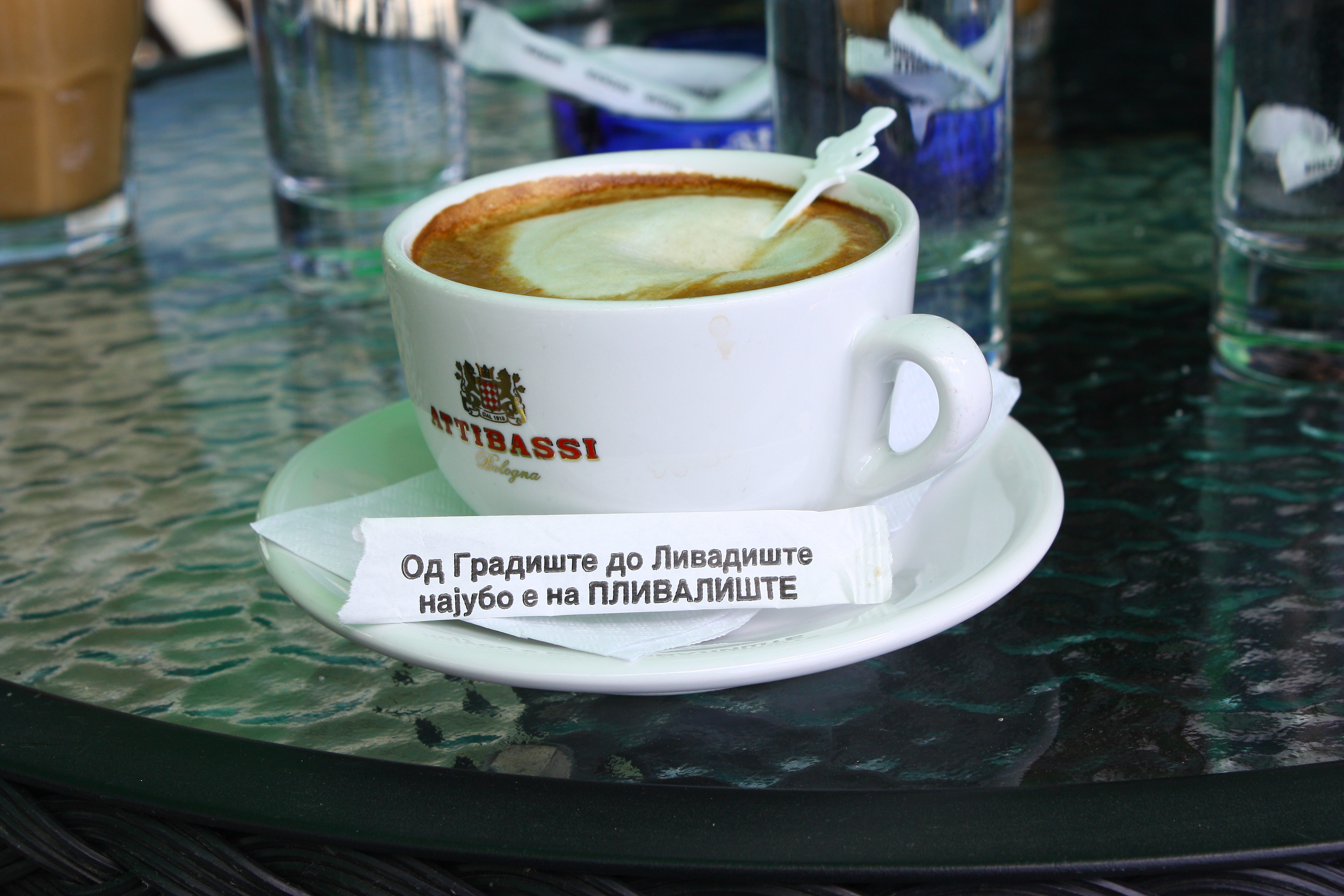 Struga, Macedonia